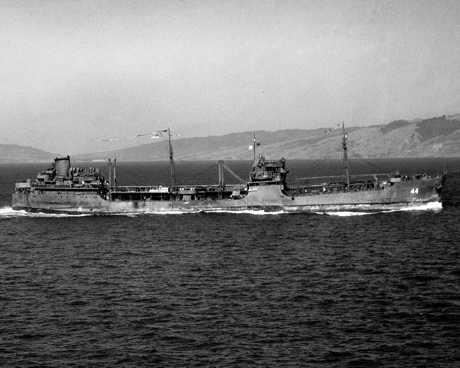 The U.S. Navy fleet oiler USS Patuxent (AO-44) underway in San Francisco Bay, 24 October 1945.